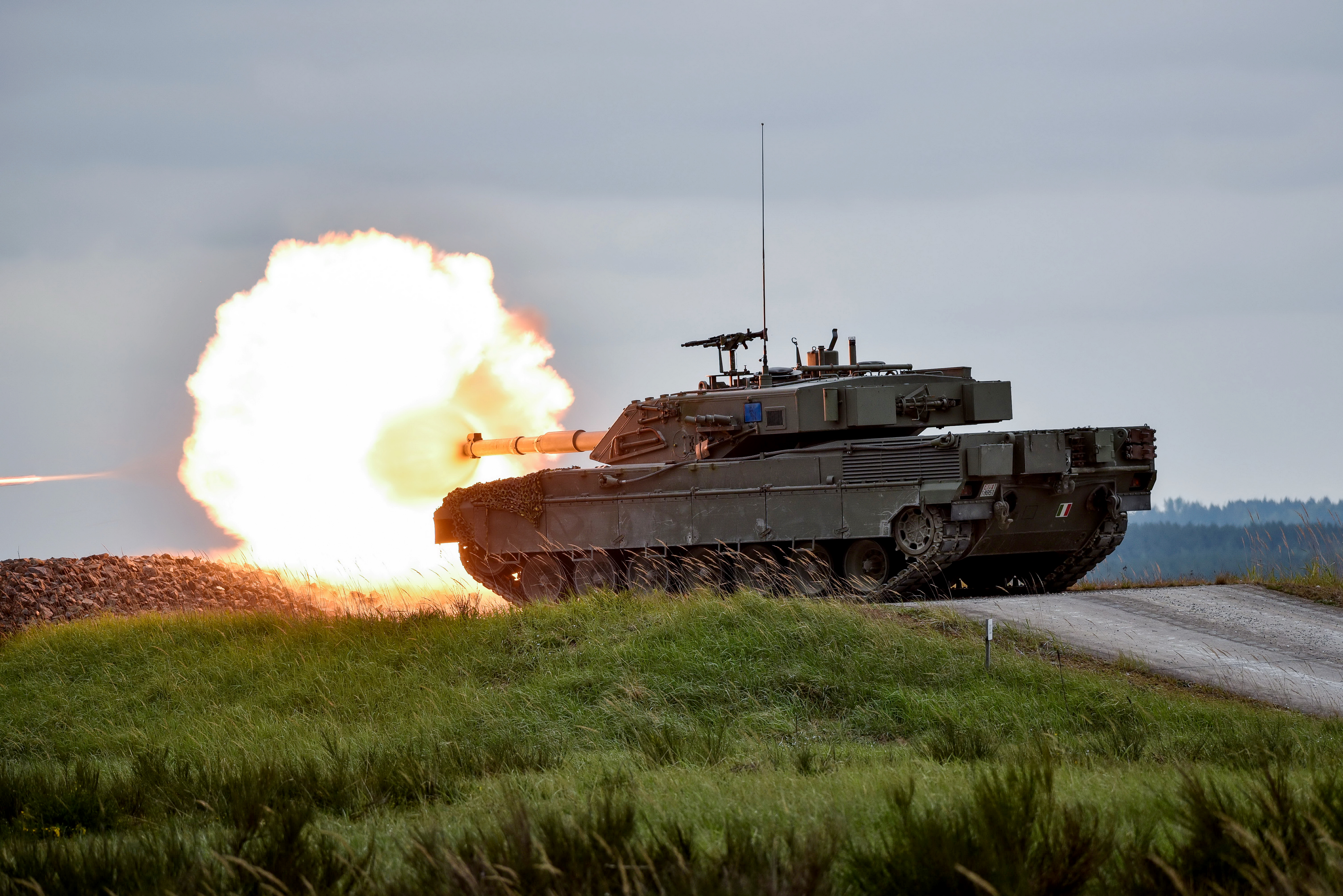 An Ariete Italian tank, fires at their target, during the Strong Europe Tank Challenge (SETC), at the 7th Army Joint Multinational Training Command’s Grafenwoehr Training Area, Grafenwoehr, Germany, May 12, 2016. The SETC is co-hosted by U.S. Army Europe and the German Bundeswehr, May 10-13, 2016. The competition is designed to foster military partnership while promoting NATO interoperability. Seven platoons from six NATO nations are competing in SETC - the first multinational tank challenge at Grafenwoehr in 25 years. For more photos, videos and stories from the Strong Europe Tank Challenge, go to (U.S. Army photo by Spc. Nathanael Mercado/Released)